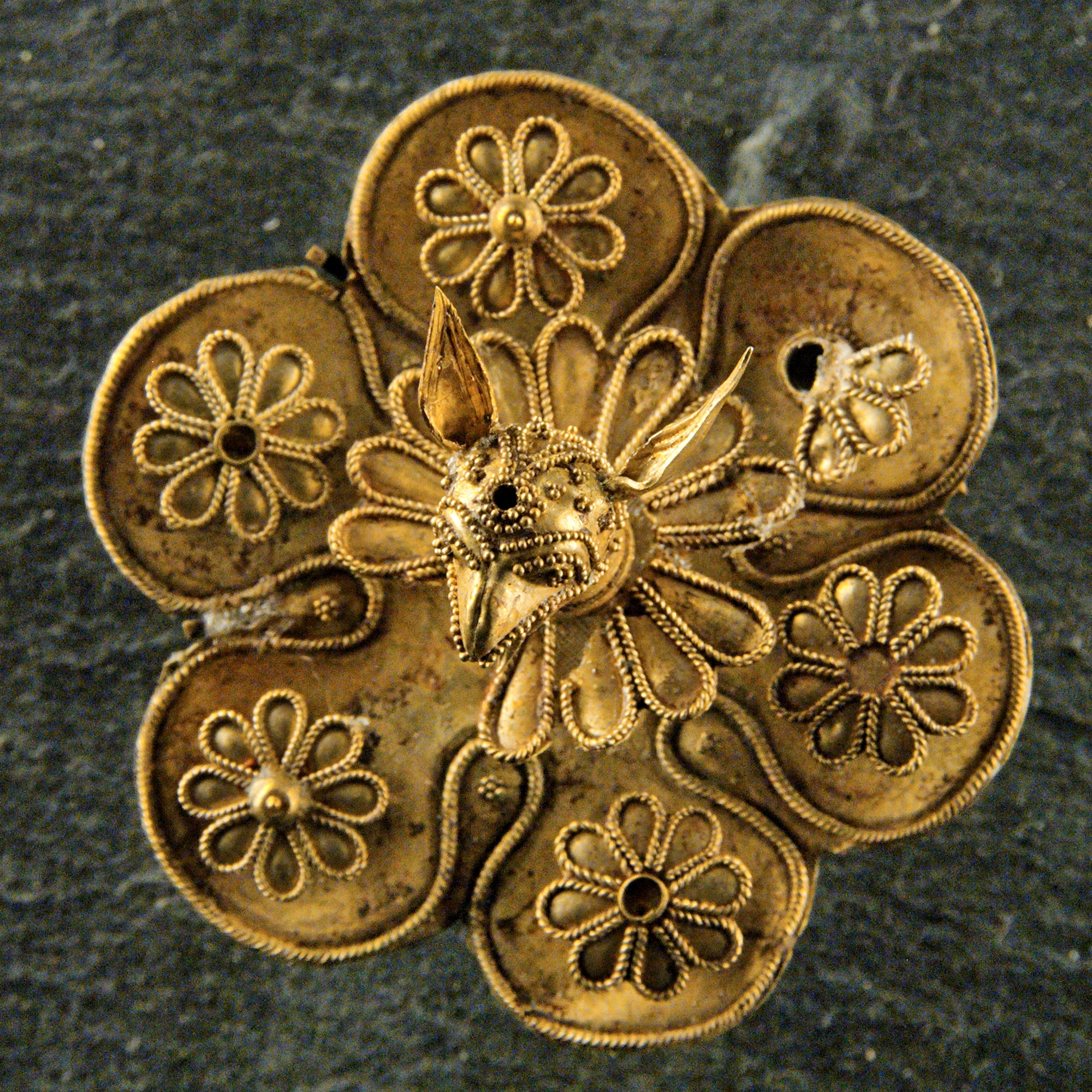 Brooch with a griffin protome. Electrum, ca. 625–600 BC. From the necropolis of Kameiros in Rhodes.